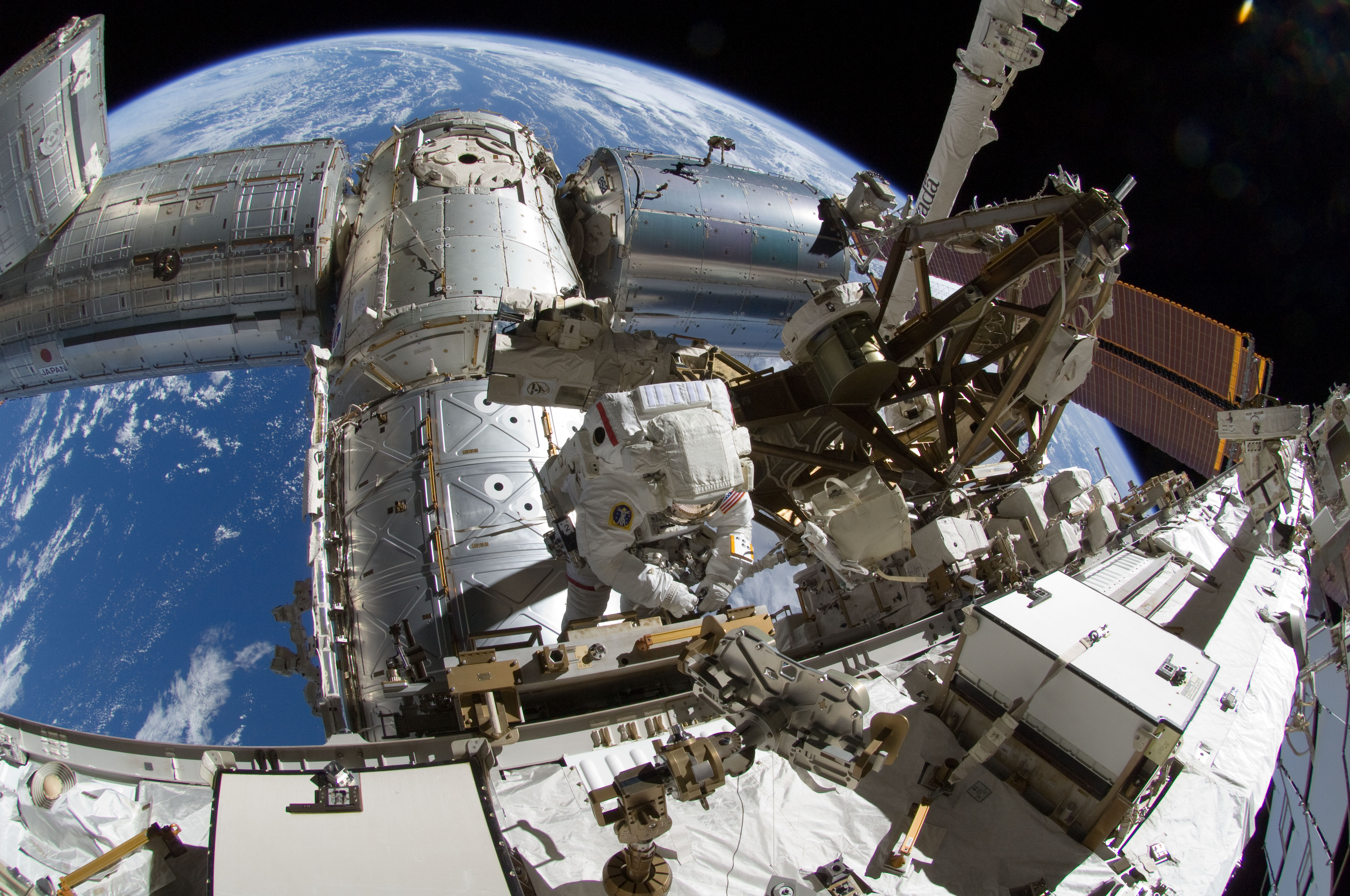 A fisheye lens attached to an electronic still camera was used to capture this image of NASA astronaut Sunita Williams, Expedition 32 flight engineer, during the mission's third session of extravehicular activity (EVA). During the six-hour, 28-minute spacewalk, Williams and Japan Aerospace Exploration Agency astronaut Aki Hoshide (out of frame), flight engineer, completed the installation of a Main Bus Switching Unit (MBSU) that was hampered last week by a possible misalignment and damaged threads where a bolt must be placed. They also installed a camera on the International Space Station's robotic arm, Canadarm2. A portion of the space station, Earth's horizon and the blackness of space provide the backdrop for the scene.